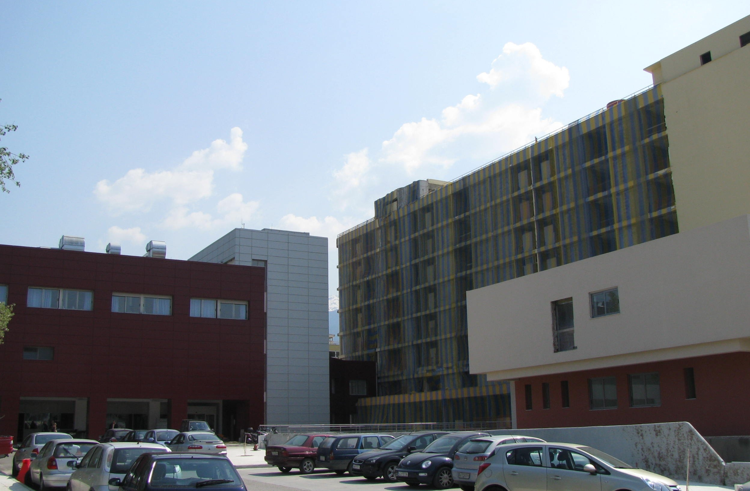 Partial view of the old (right) and the new (left) two-storey building of the general hospital of Patras "Agios Andreas"